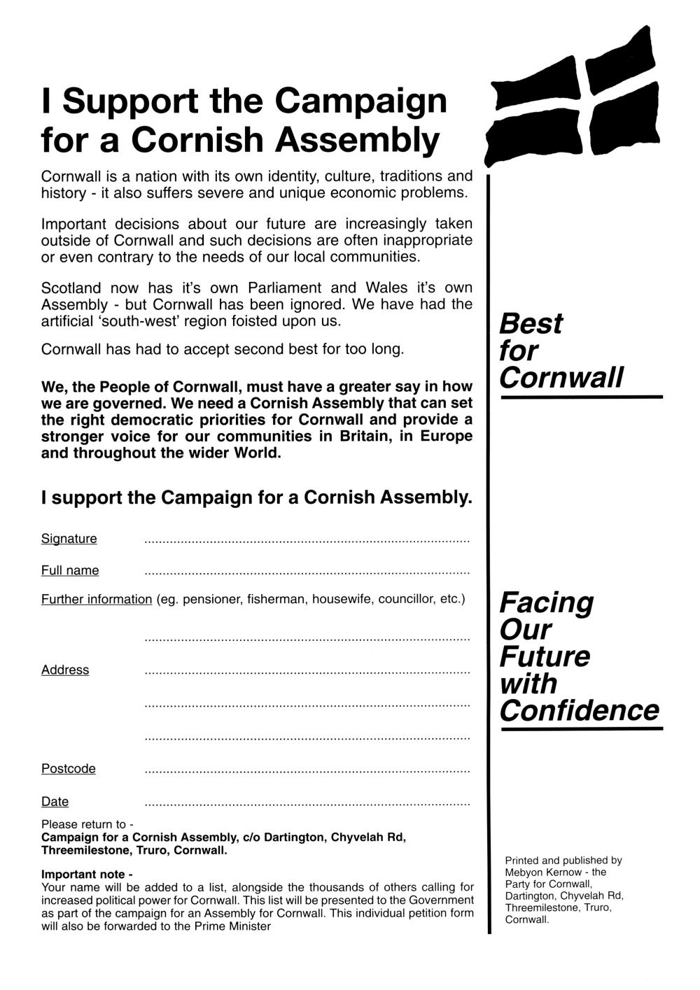 Facsimile of the paper petition issued by Mebyon Kernow, calling for a Cornish Assembly, it attracted over 50,000 signatures.